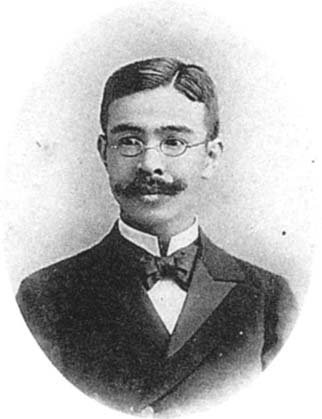 H. Nakayama, Professor of Civil Engineering.